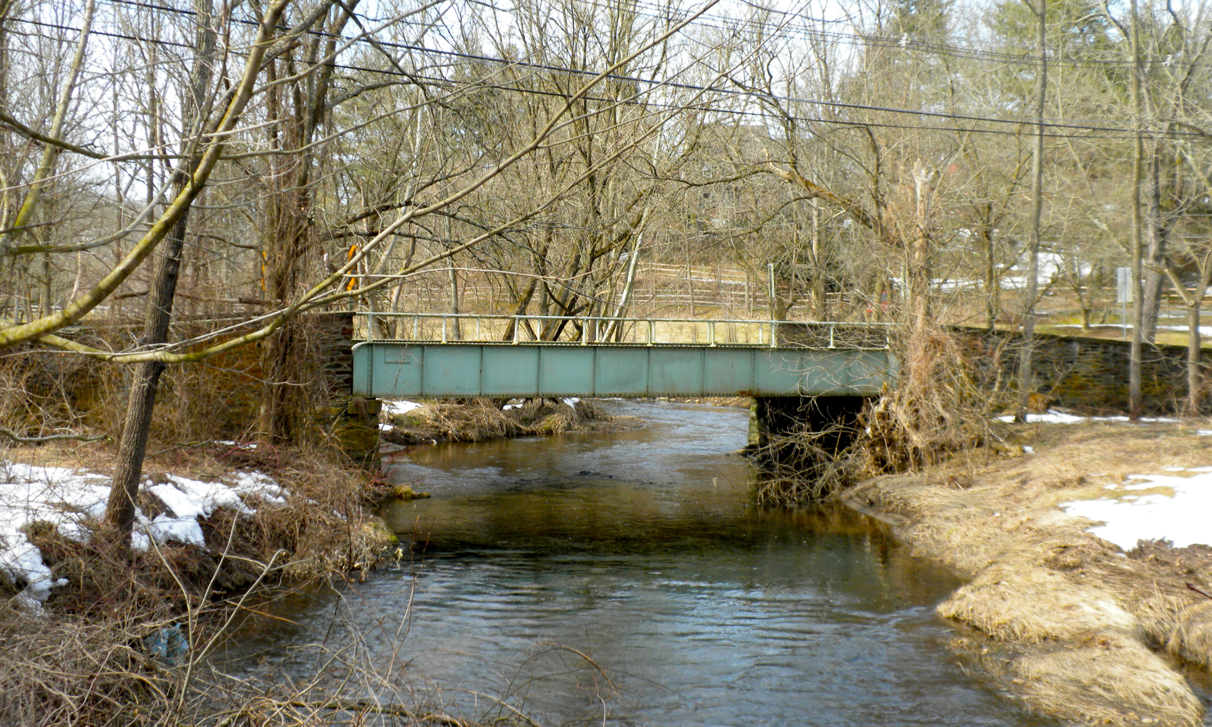 Chandler Mill Bridge, newly added to NRHP on January 11, 2010. At Chandler Mill Road over the West Branch of Red Clay Creek in Kennett Township, Chester County, Pennsylvania. Built 1910 according to plaque on side of bridge, which also gives "George Dole, Cont." and "N.R. Rambo GO Eng." Now removed from road use and made a pedestrian bridge.